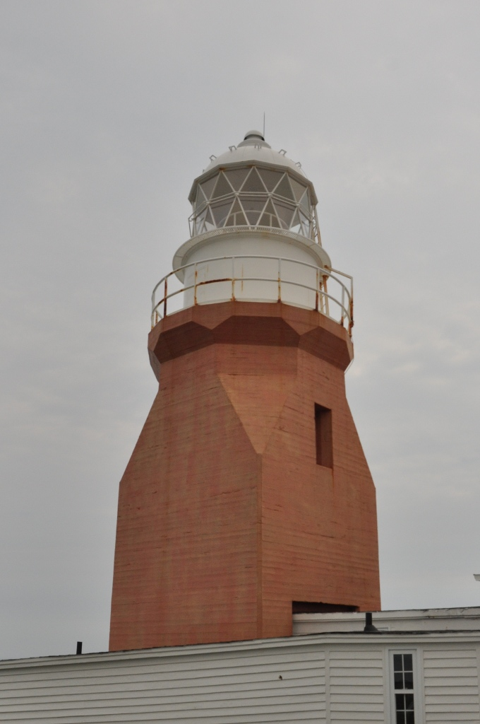 Long Point Light, Crow Head, Newfoundland.